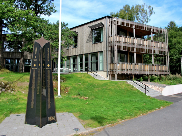 Kamratgården, the club house of IFK Göteborg situated in the Delsjö area in Göteborg (Gothenburg). The current club house was built in 2012–2013 and replaced the old club house on the same site.